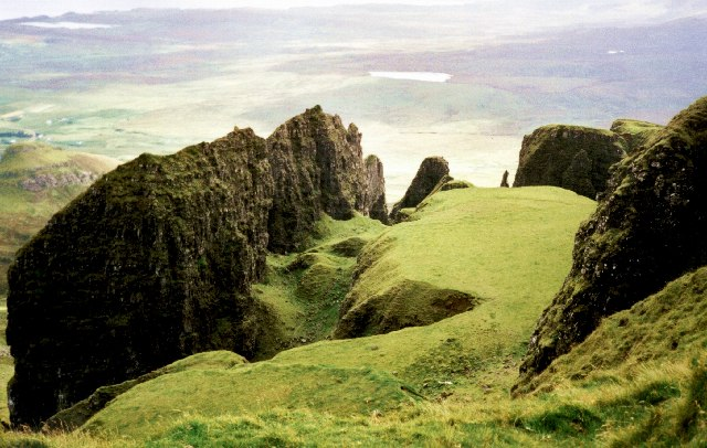 Quiraing, The Table. The lush green flat area known as the Table looks incongruous amongst the jagged rocks of the Quiraing landslip. Looking SE, Sound of Raasay just visible top left.